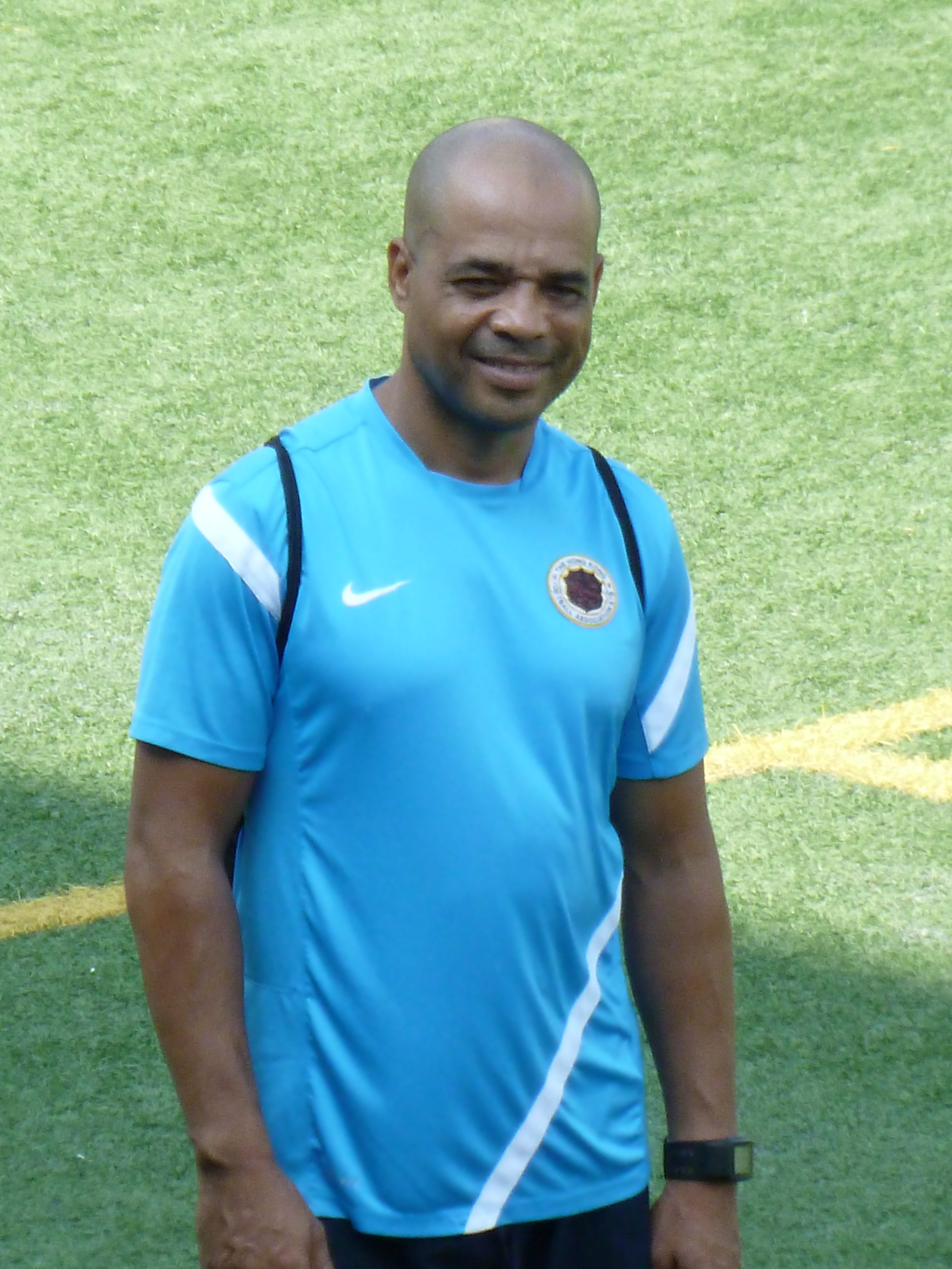 Anílton da Conceição (8 Sept 2013, Hong Kong National Football Team training session, Po Kong Village Road Park)中文（香港）: 安尼頓 (8 Sept 2013, 港隊訓練, 蒲崗村道公園)